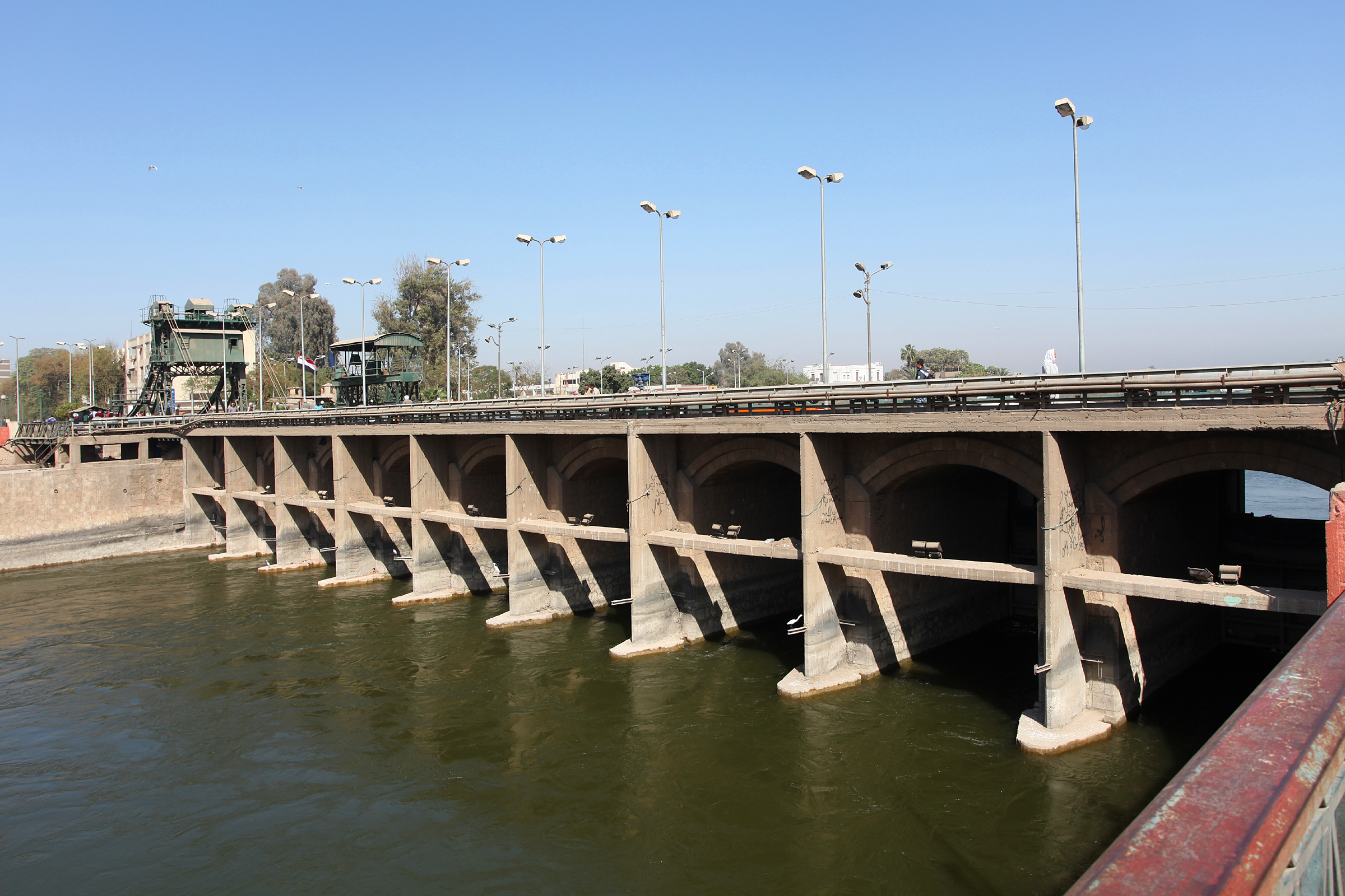 West side of the Asyut head regulator for the Ibrahimiya Canal